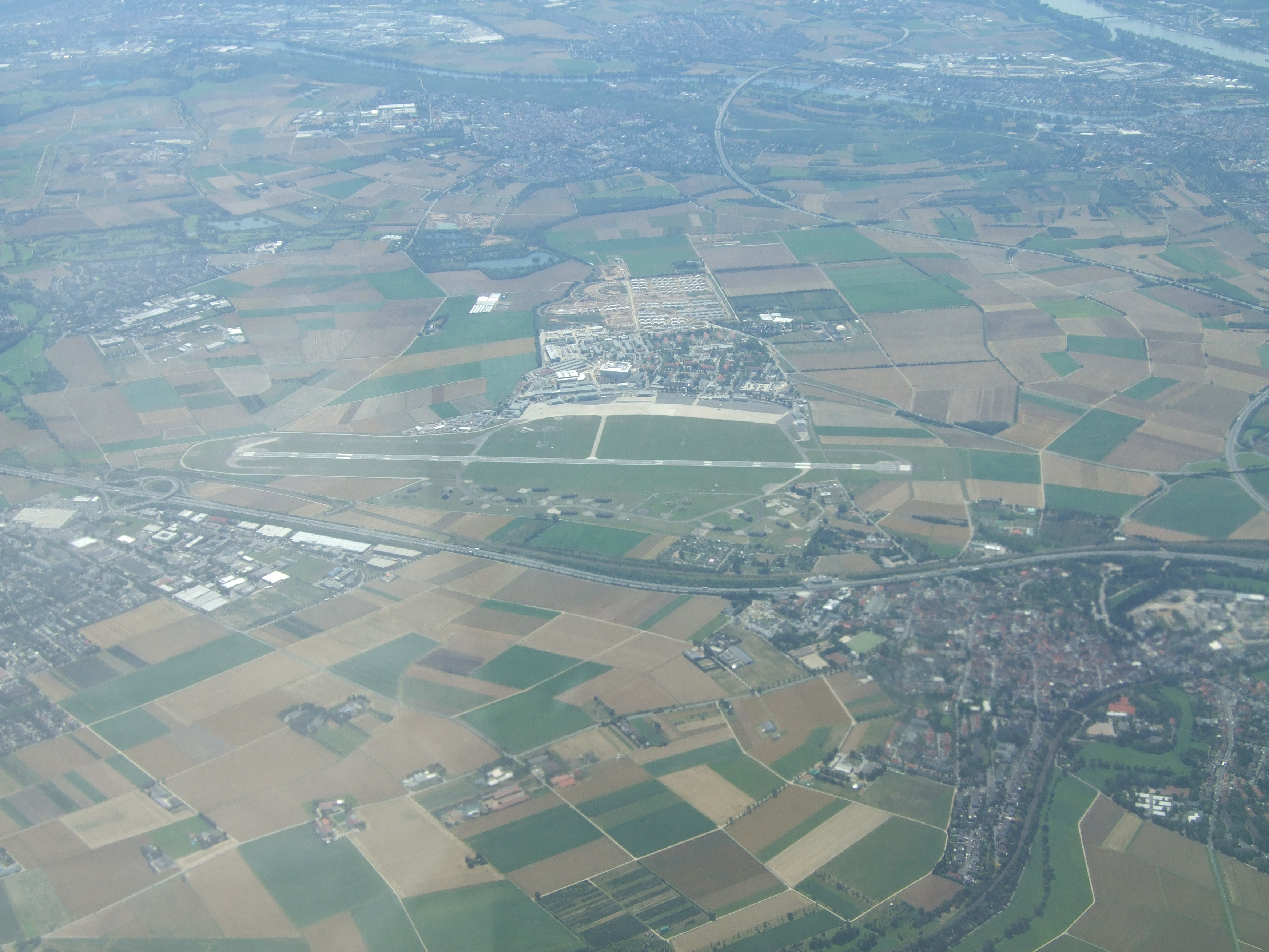 Aerial photograph of Wiesbaden Army Airfield (WIE/ETOU)